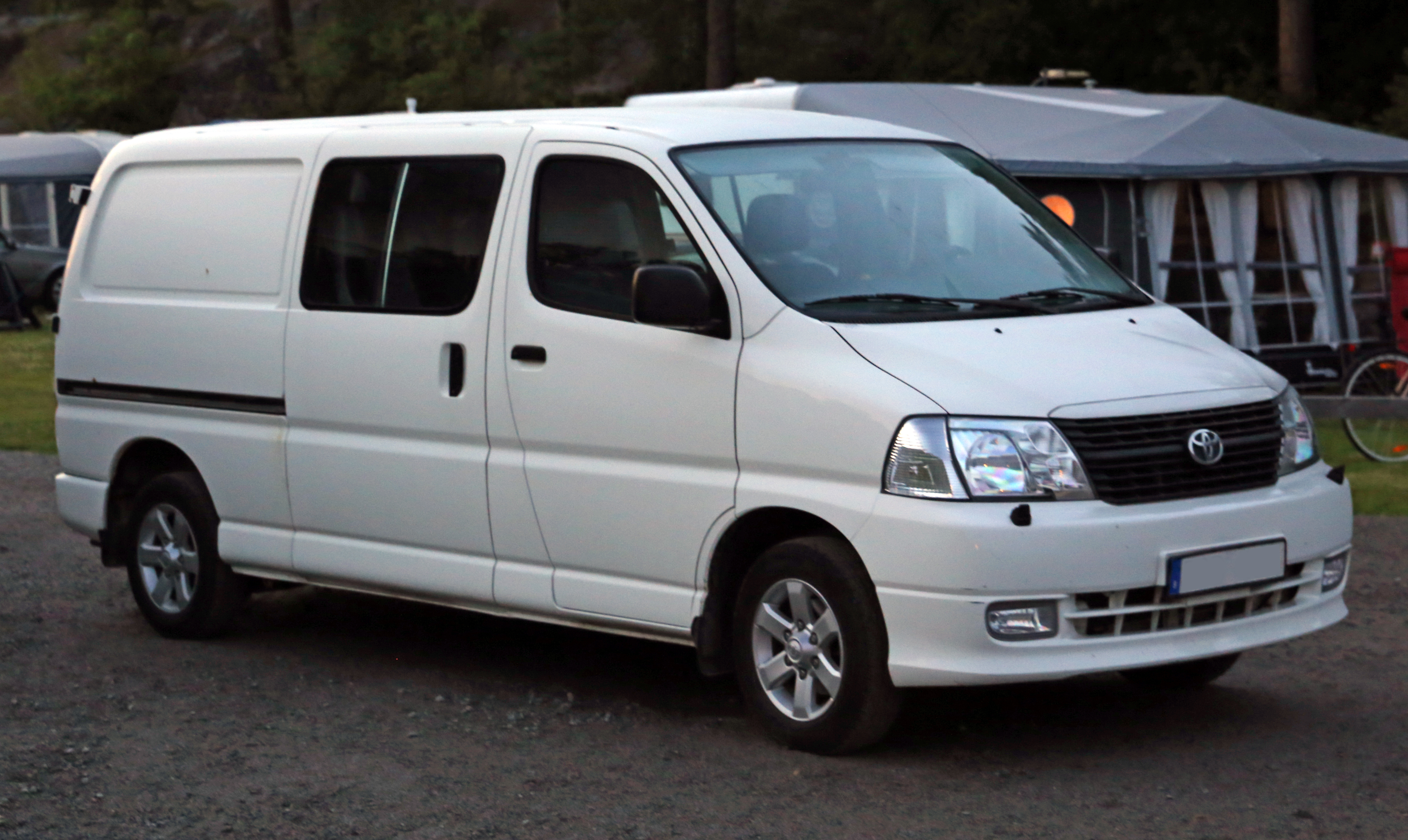 2007 Toyota Hiace Van LWB, model code KLH22L-SBMRHW. This has the 2KD-FTV turbo common rail diesel engine with 116PS (86kW) and a manual transmission. Color code 058 and trim FC15, left the assembly line in June 2007.